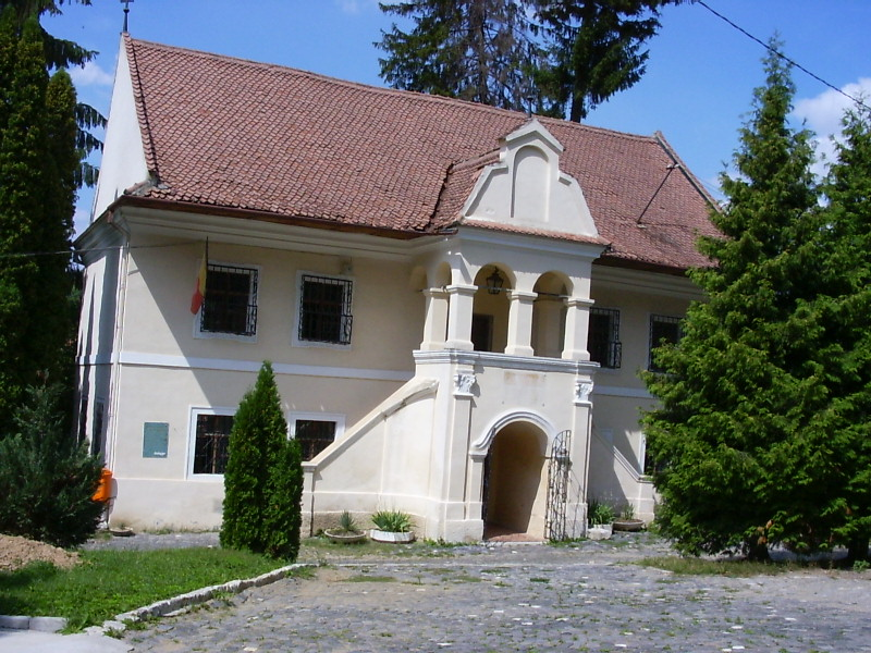 Building of the first Romanian school, in the yard of the St. Nicholas church (Braşov)